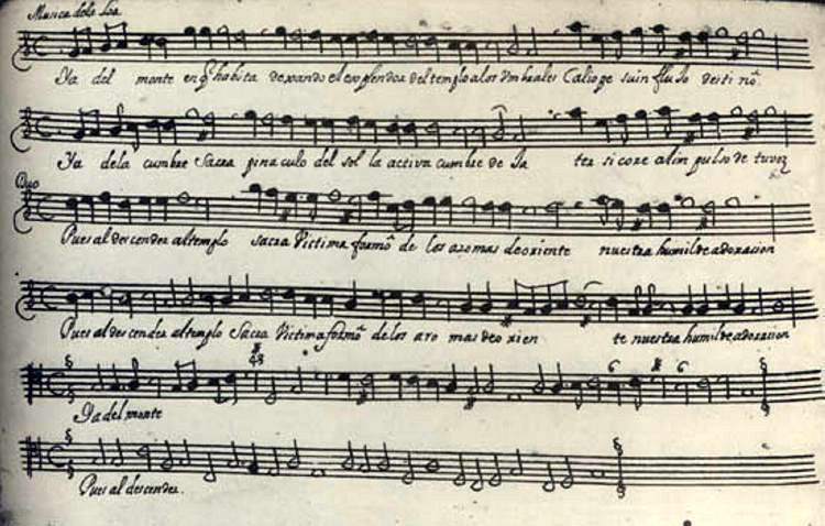 Photograph of the first page of the original score for La púrpura de la rosa (1701) by Tomás de Torrejón y Velasco (1644-1728).